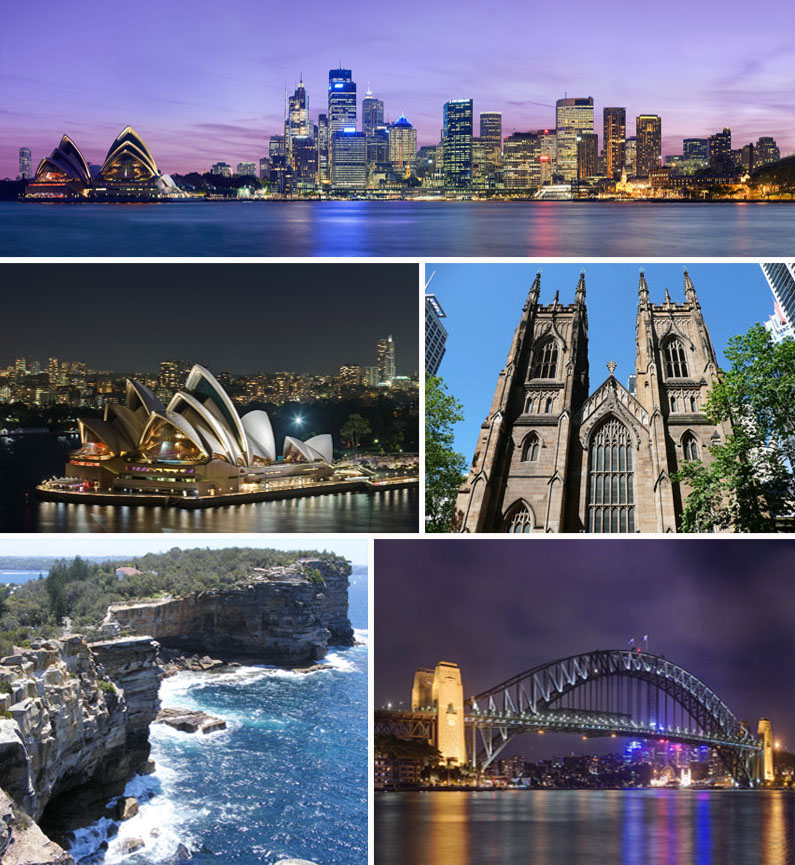 File:Sydney skyline at dusk - Dec 2008.jpg by Diliff, licensed under CC BY SA 3.0/GFDL 1.2 File:Sydney Opera House - Dec 2008.jpg by Diliff, licensed under CC BY SA 3.0/GFDL 1.2 File:1St Andrews1.JPG by Hermione9753, licensed under CC BY SA 3.0/GFDL 1.2 File:WatsonsBay0131.JPG by Adam.J.W.C., licensed under CC BY SA 3.0 File:Sydney Harbour Bridge from Circuilar Quay.jpg by Noodle snacks, licensed under CC BY SA 3.0